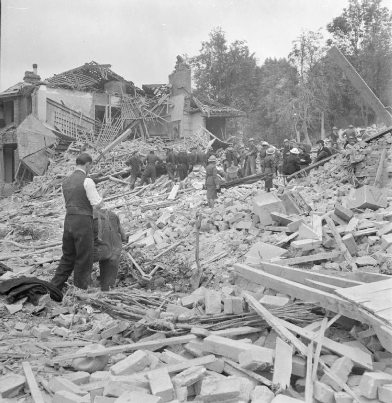 Flying Bomb- V1 Bomb Damage in London, England, UK, 1944 Civil Defence rescue workers stand on piles of rubble as they try to dig survivors out of collapsed buildings following a V1 attack in the Highland Road and Lunham Road area of Norwood, London, SE19. Stretcher bearers stand in readiness, should a casualty be brought out. In the foreground, piles of timber can be seen amongst the brick rubble and debris, and to the left, two men can be seen, their spades resting on the rubble, as one lights a cigarette during a break from rescue work. In the background, the remains of half-destroyed houses can be also be seen.